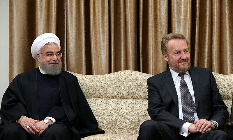 President of Iran, Hassan Rouhani and Bakir Izetbegović. Chairman of the Presidency of Bosnia and Herzegovina